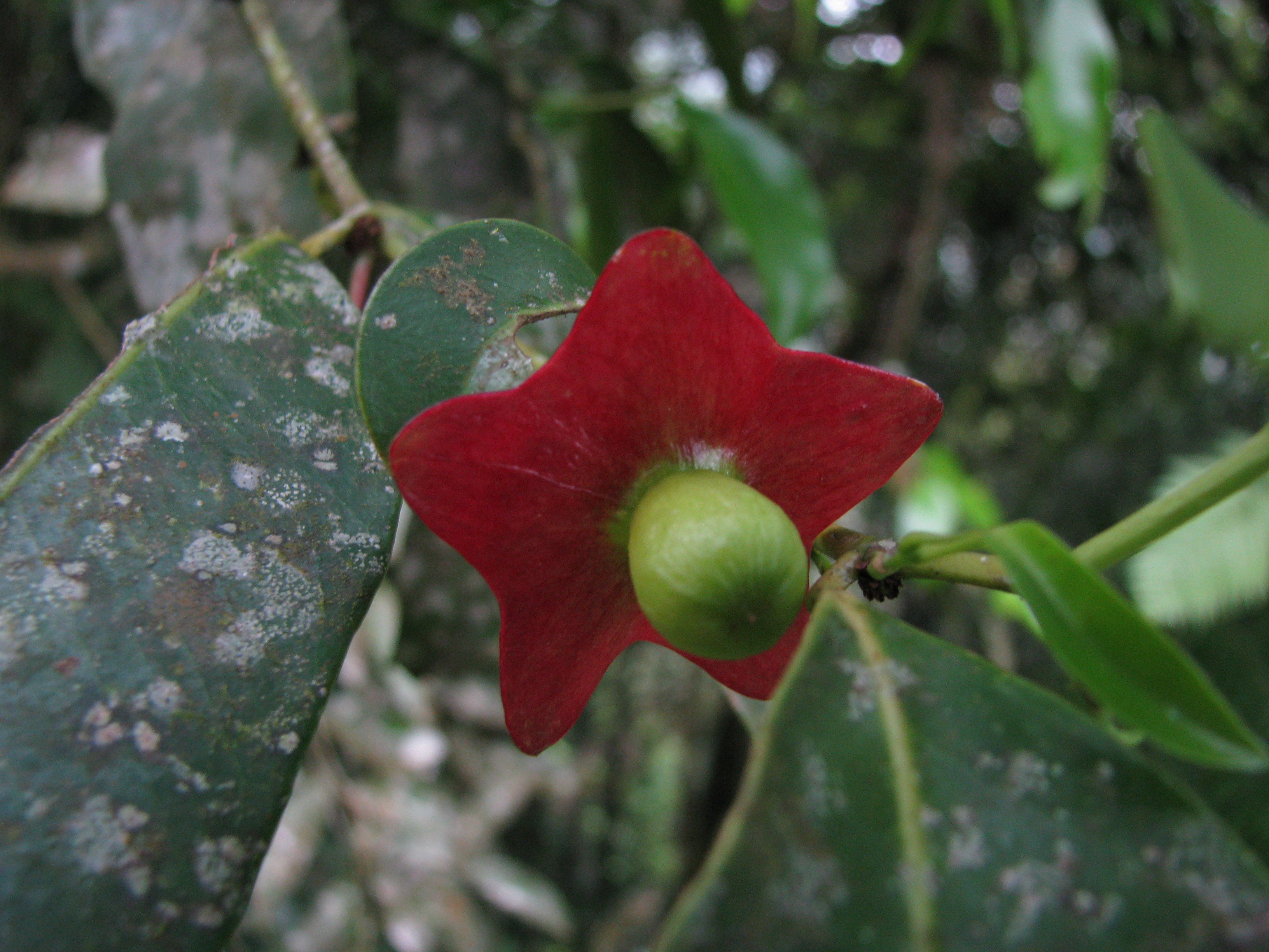 Heisteria silvianii Schwacke